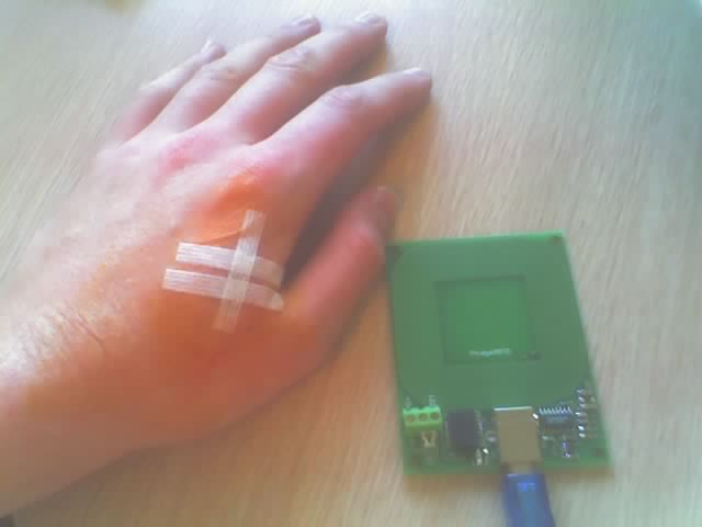 Image of hand with implanted RFID chip, next to RFID reader.03-23-05_1708